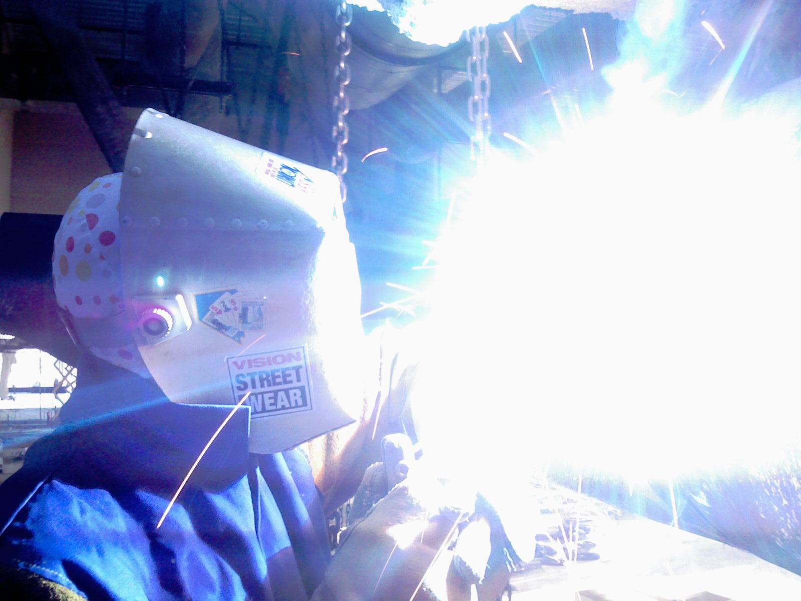 A pipe fitter/welder welding on HVAC steel pipe at Fontainebleau Resort in Las Vegas NV